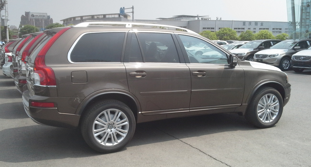 Volvo XC Classic photographed in Chongqing, China.